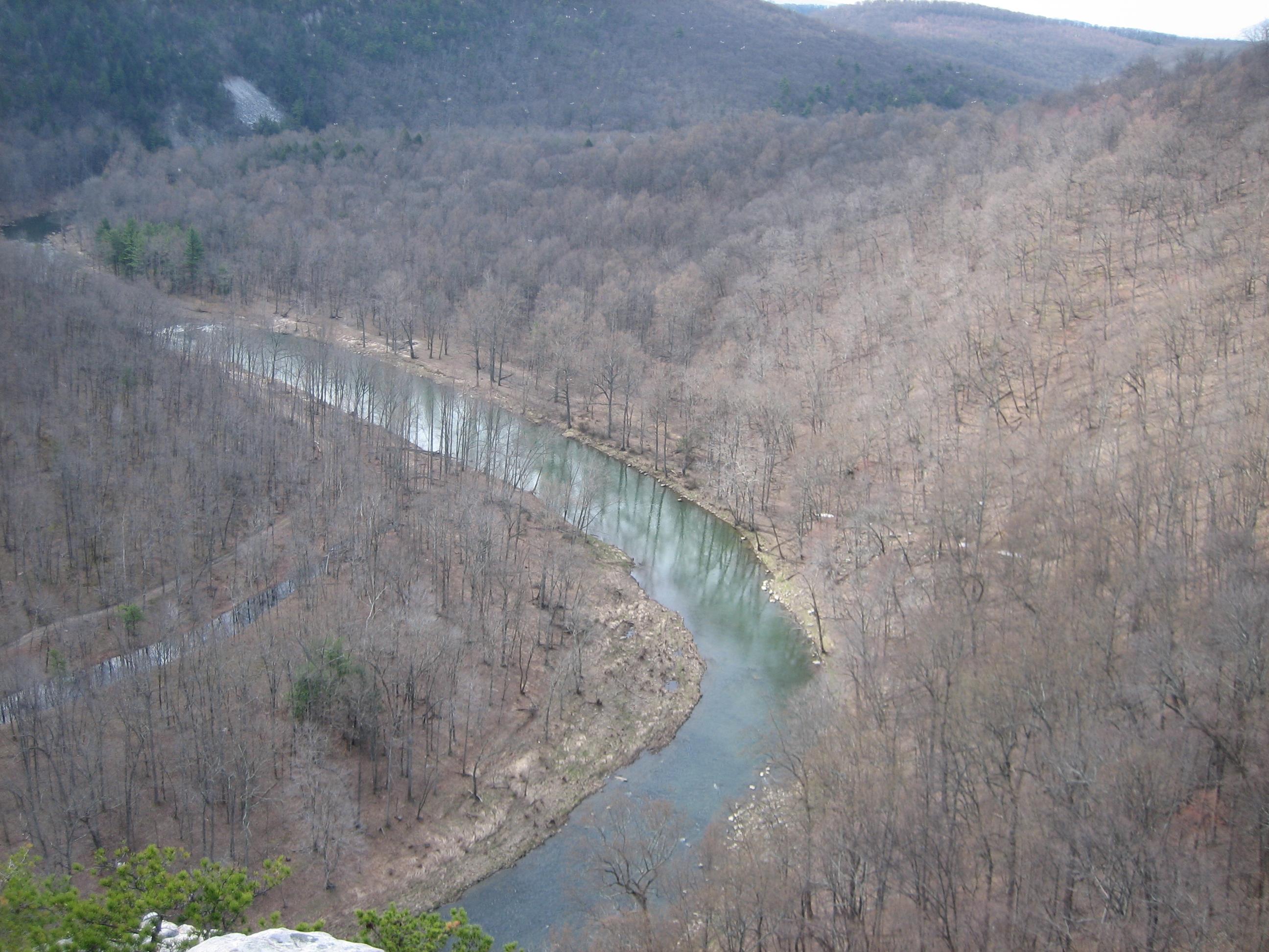 A view of the Cacapon River from atop Caudy's Castle in early spring 2007.